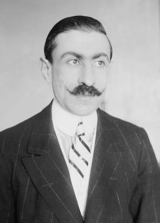 Nakhle Moutran a Pasha of Baalbek (Lebanon) during the Ottoman Empire